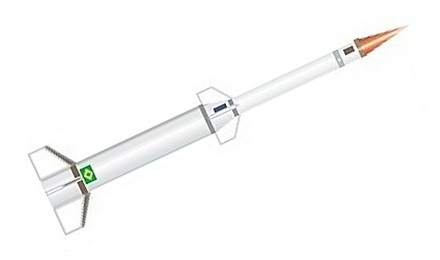 Sonda III rocket shape.